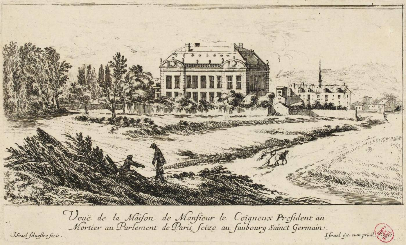 Photography of the engraving View of the président à mortier to the parliament of Paris le Coigneux's house, located in Faubourg Saint-Germain.